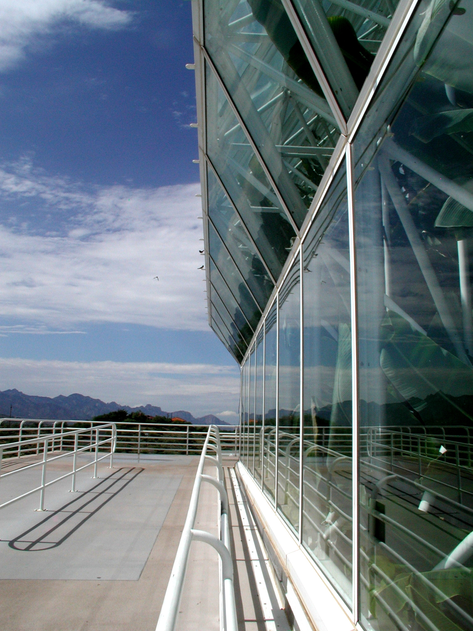 biosphere 2